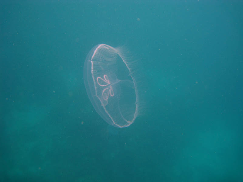 Aurelia labita - Moon Jellyfish, Cayo Blanco reef near the island of Vieques, Puerto Rico